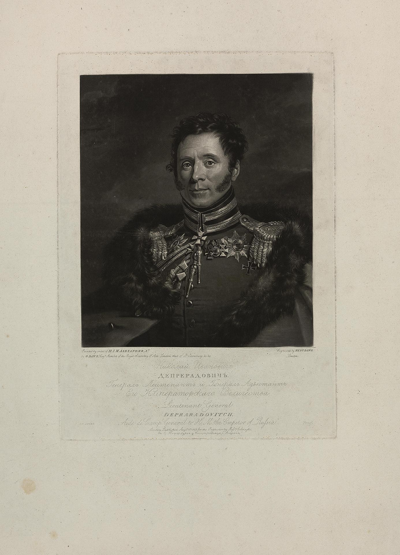 Nikolay Ivanovich Depreradovich (1767 — 1843) russian general of the cavalry and adjutant general.